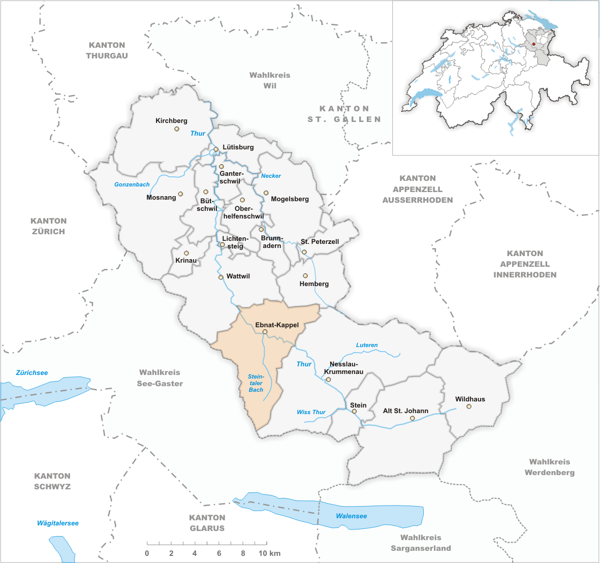 Municipality Ebnat-Kappel